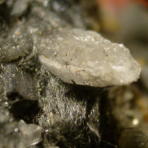 Boulangerit und Quartz Locality: Stari Trg Mine, Trepča complex, Trepča valley, Kosovska Mitrovica, Kosovo Original description: Close up of one of the highly etched Quartz crystals with a 'beard' of Boulangerite.